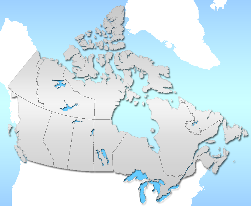 Province layout of Canada